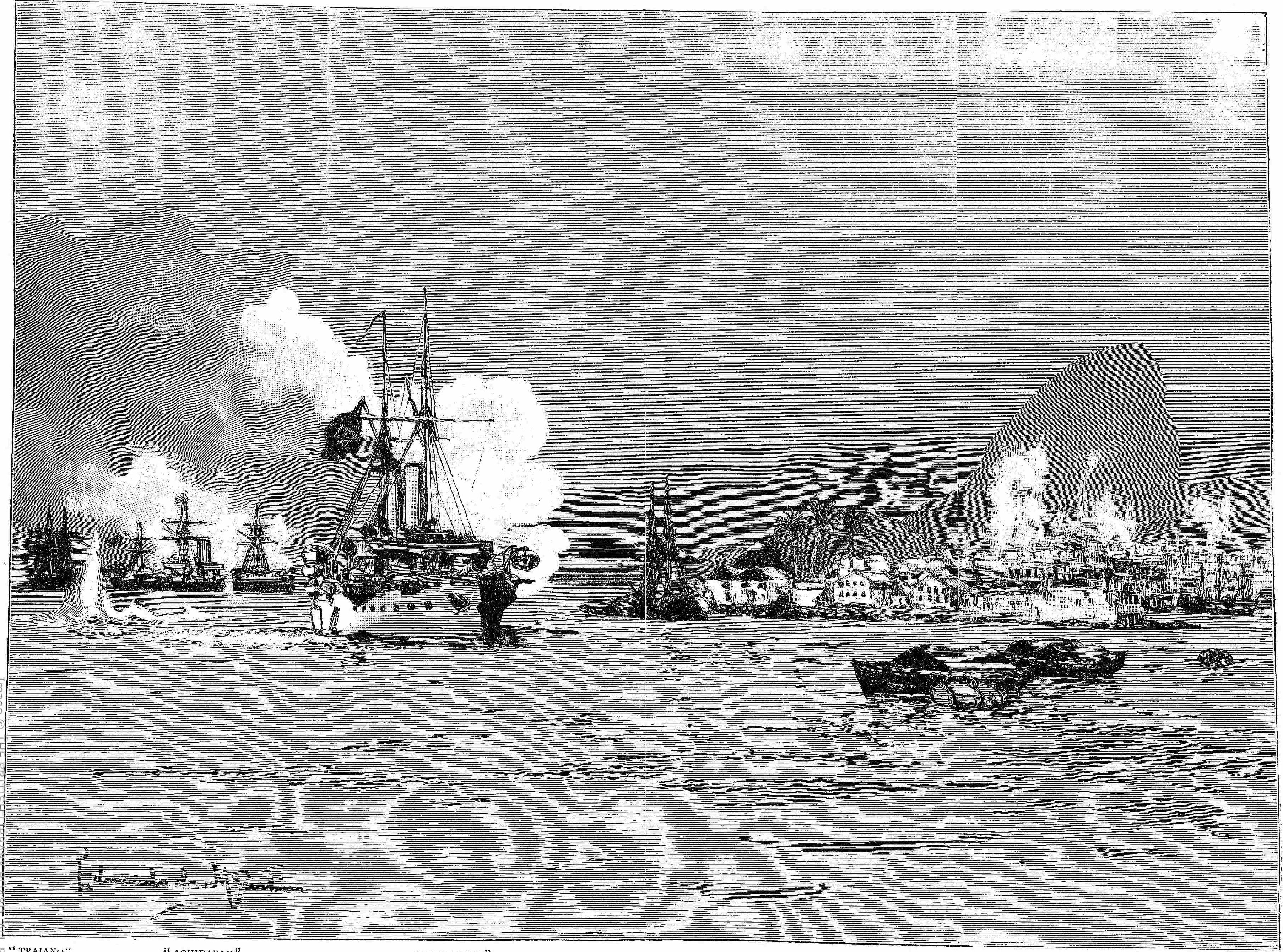 The Revolt in Brazil: A general view of the bay and town of Rio during the first bombardment of the city by the rebel forces under Admiral Mello. Drawn by Chevalier De Martino. The rebel fleet under Admiral Mello has fulfilled its threat . It opened fire upon the forts near Nictheroy, commanding the entrance to Rio de Janeiro . After bombarding the forts the guns of the fleet, consisting of the Aquidaban, Republica and Trajano, were turned on the city . The Arsenal was apparently the main point of attack, and many shells were thrown at it. The bombardment of the city lasted from eleven o ' clock in the morning until five o ' clock in the afternoon, but little damage was done.